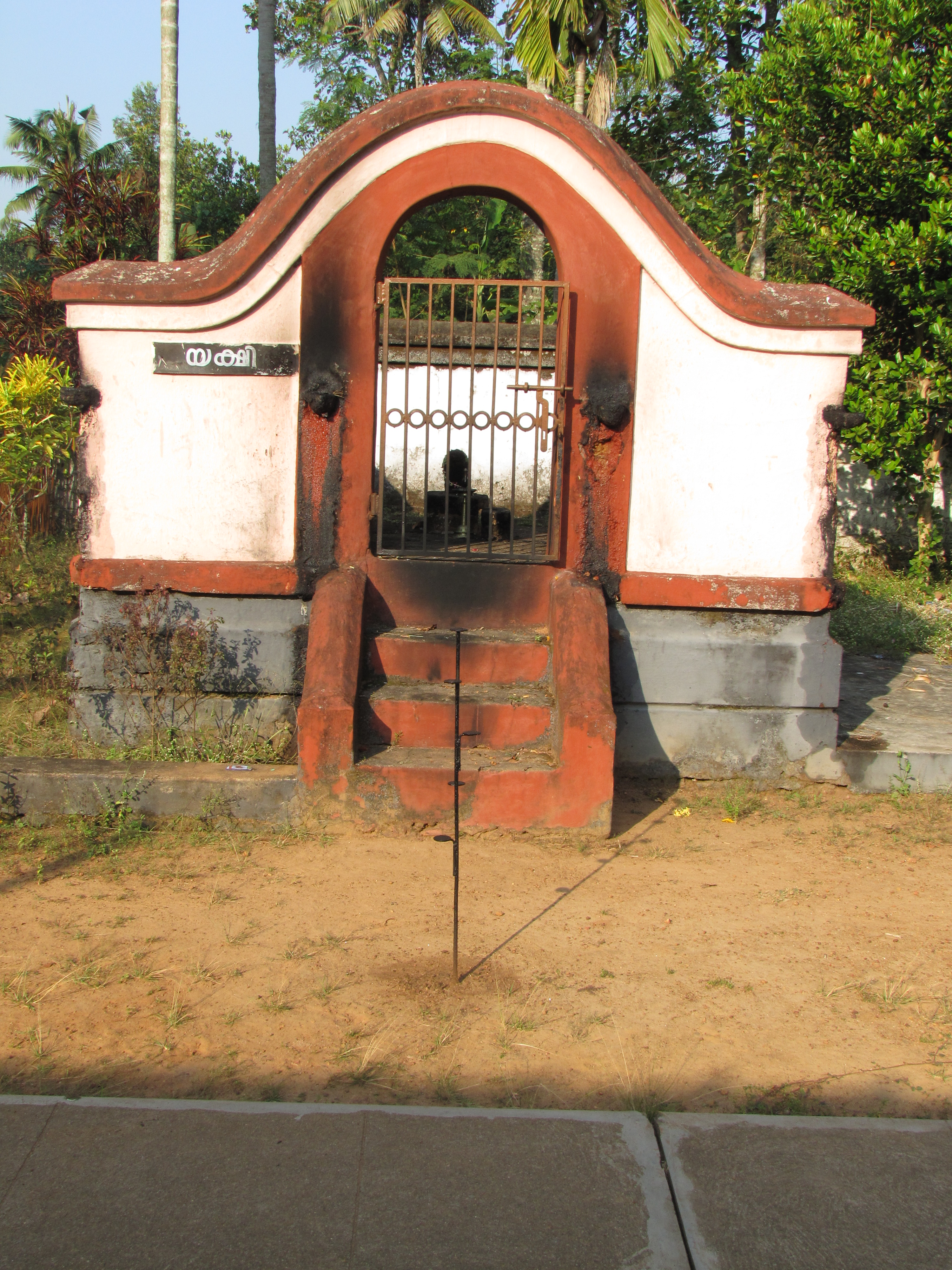 Yakshi idol in Veroor Sri Dharmashastha Temple